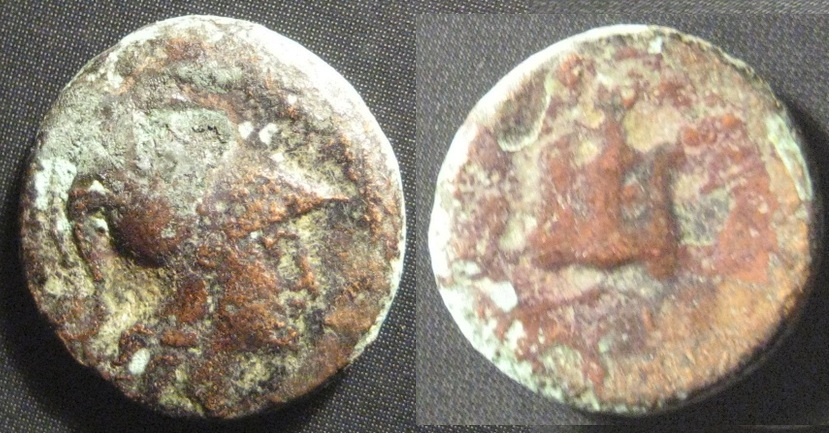 Ancient Greek coin of the town of Side in Pamphylia. Compare with Sear# 5441.